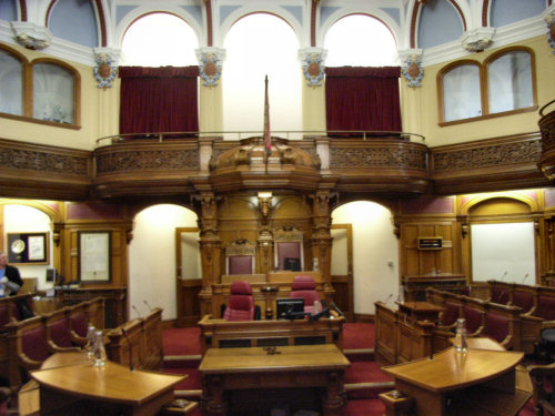 Interior of States of Jersey chamber